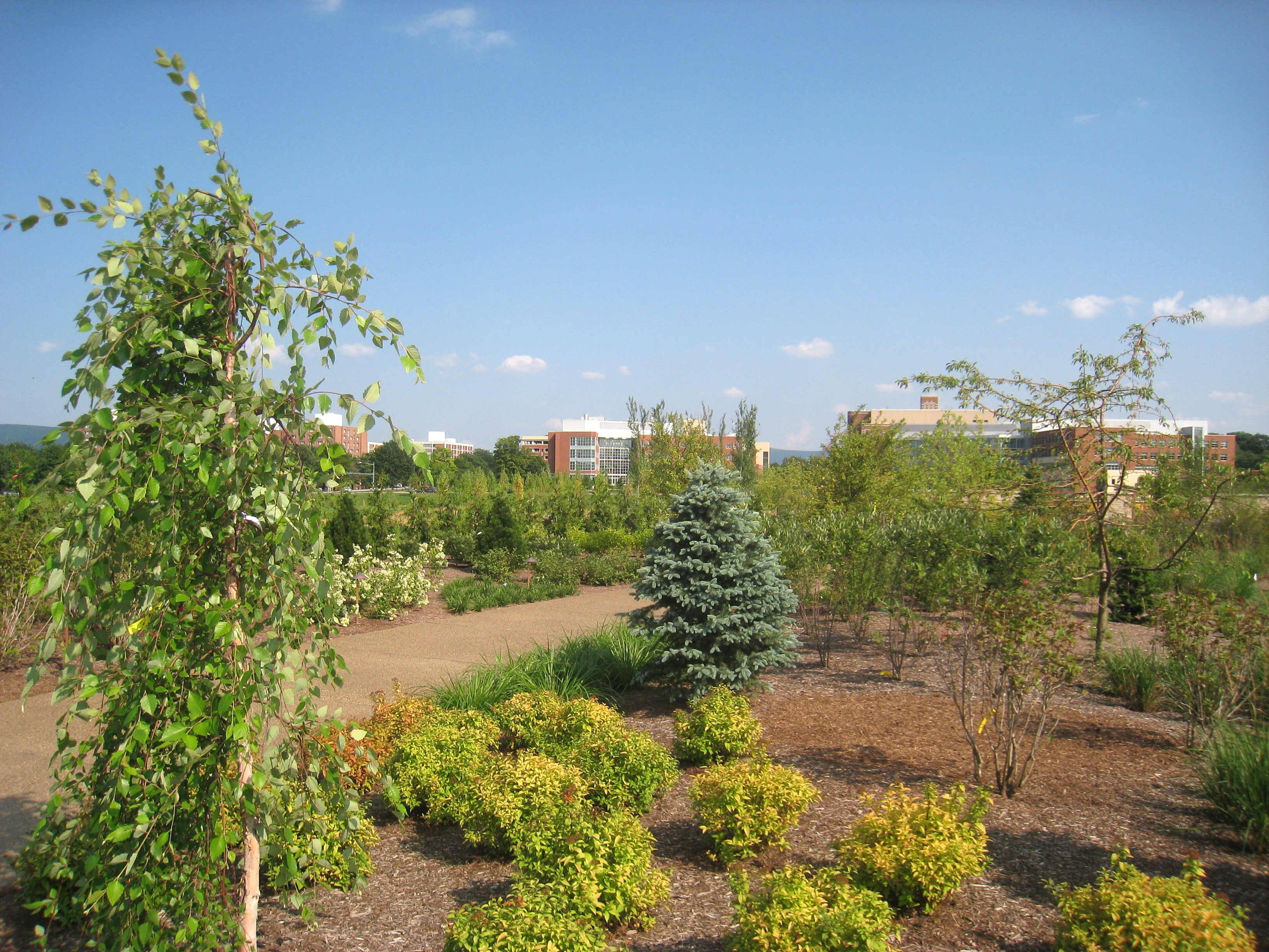 Arboretum at Penn State (H. O. Smith Botanic Gardens), under construction, Penn State University, State College, Pennsylvania, USA.